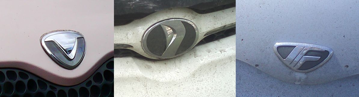 Vitz, Platz, Fun Cargo emblem